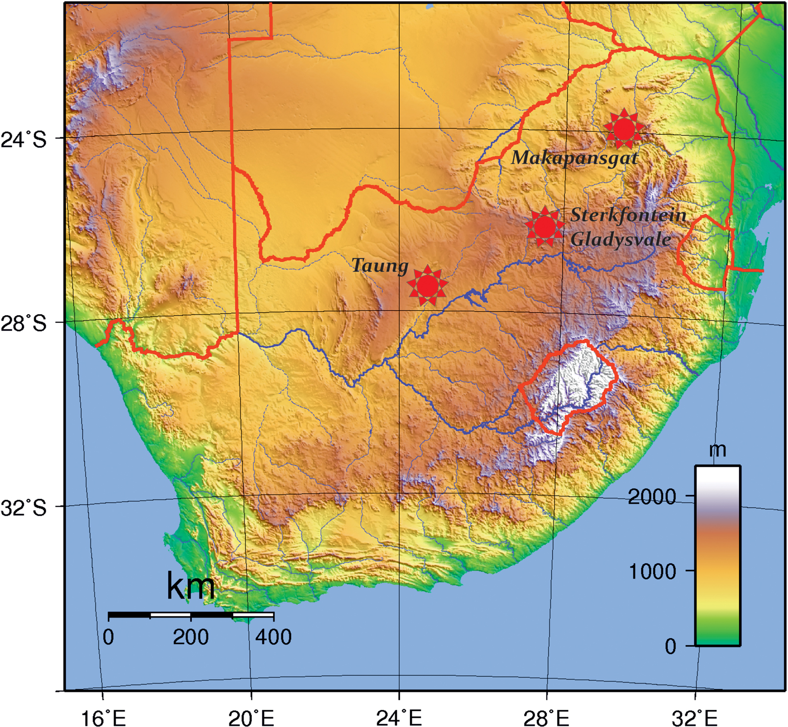 Australopithecus africanus paleoanthropological sites in South Africa (Taung, Makapansgat, Gladysvale, Sterkfontein)